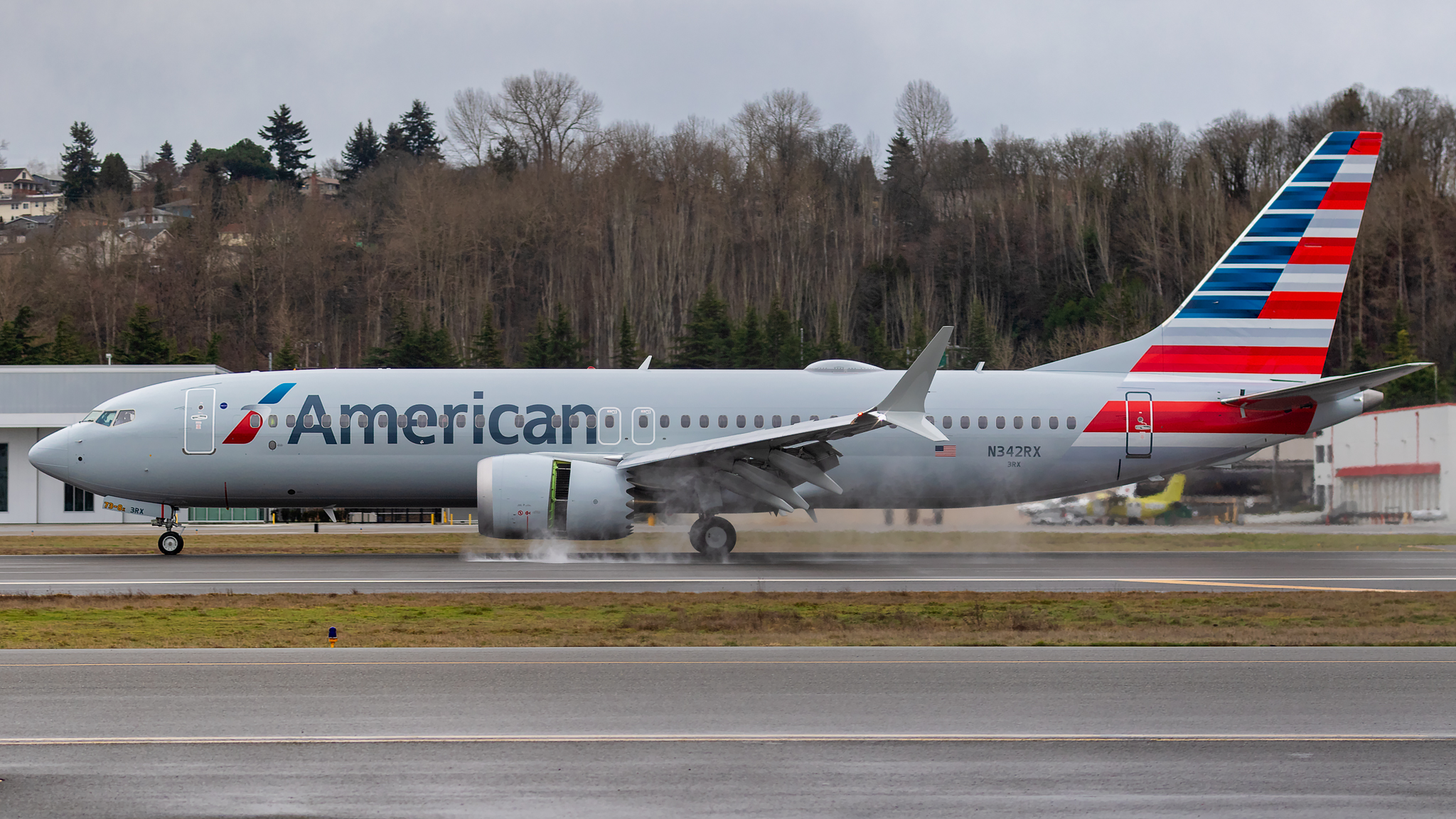 01202019_American Airlines_B738M_N342RX_KBFI_NASEDIT